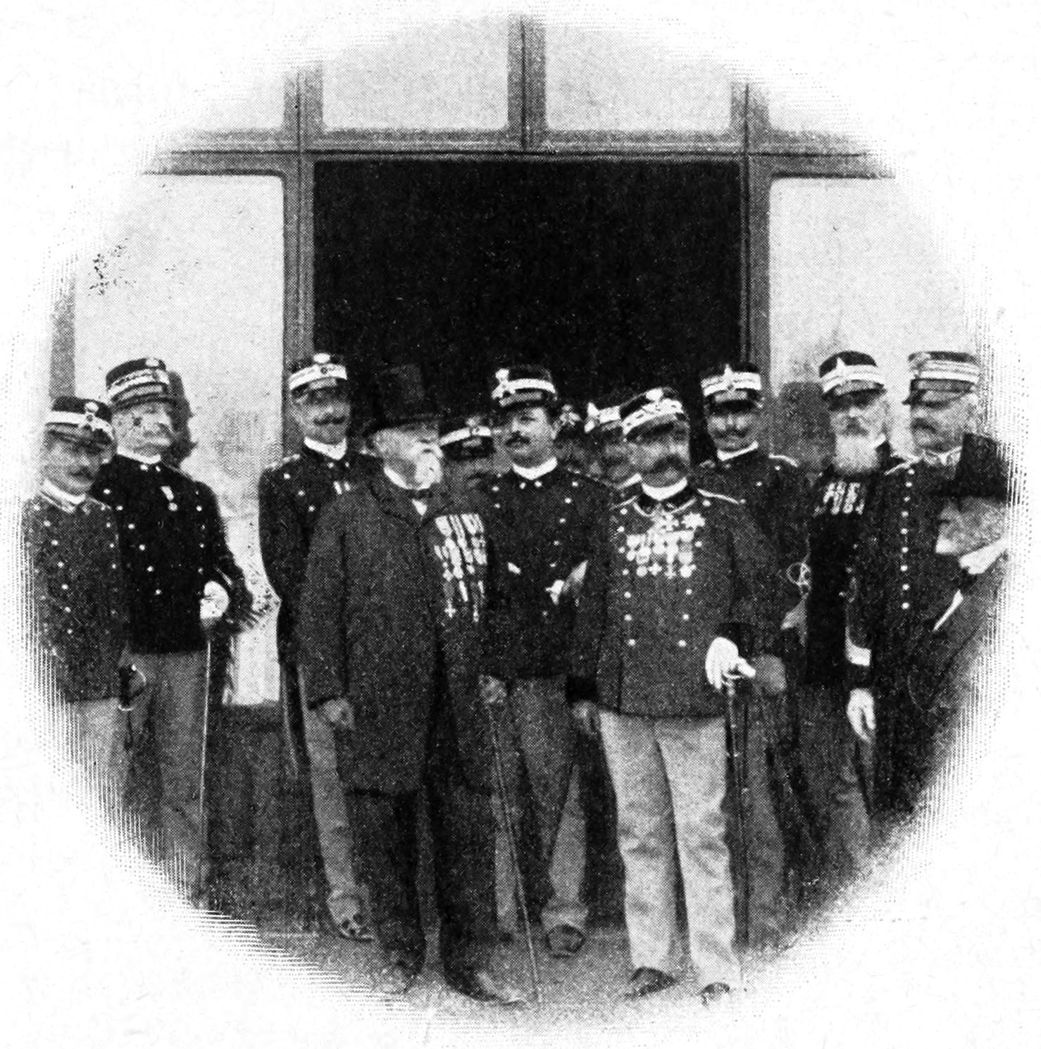 Image from book: Leopoldo Pullè, Patria Esercito Re, Ulrico Hoepli, Milan, 1908.